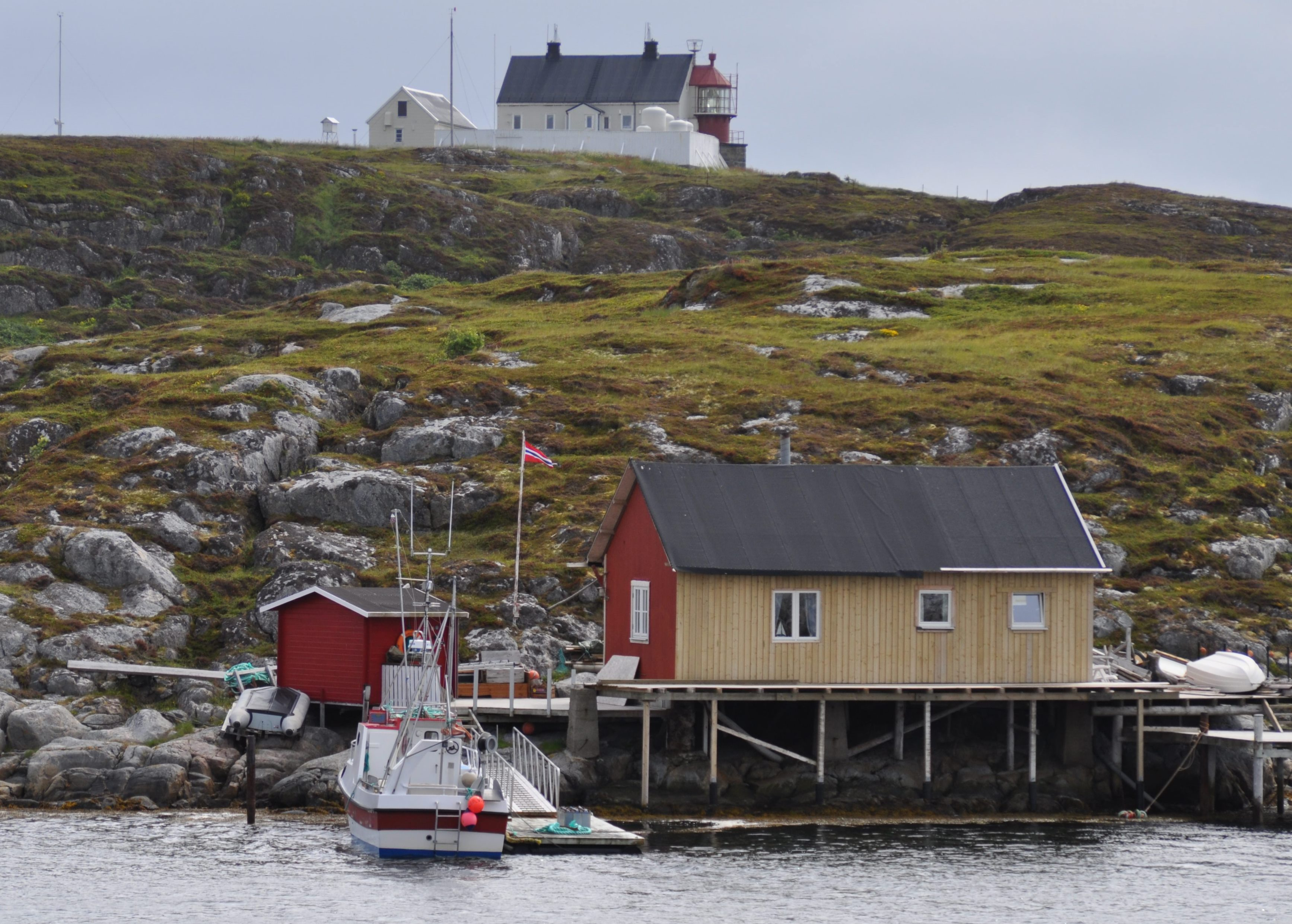 Isle Oddholmen and Nordøyan Lighthouse in fishing village and archipelago Nordøyan, Vikna, Nord-Trøndelag, Norway